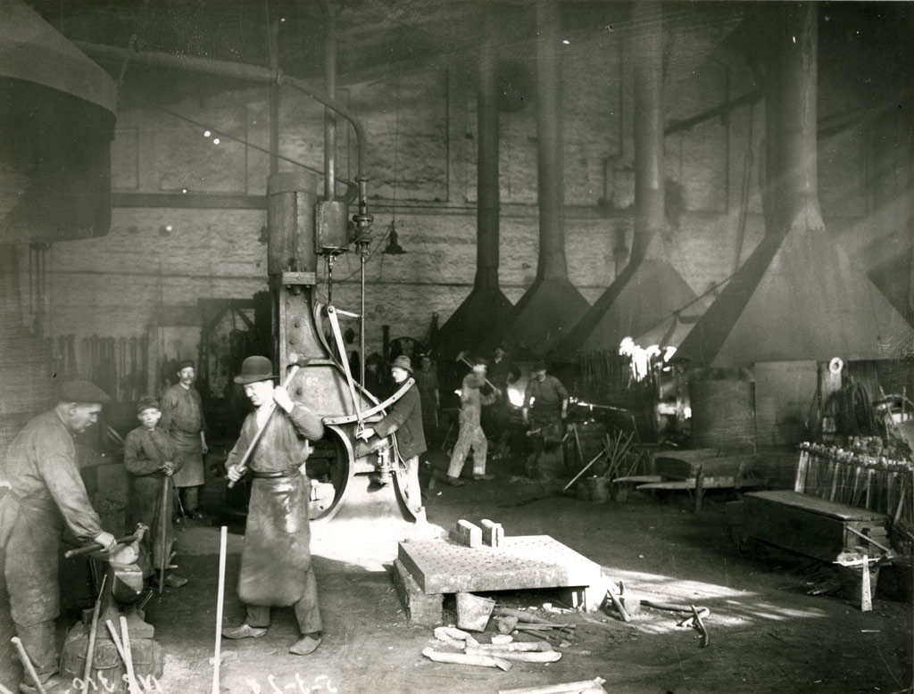 The forge of Elsinore Shipyard. Helsingør Kommunes Museer.